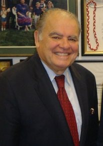 Enrique V. Iglesias, Uruguayan economist, former president of the Inter-American Development Bank.